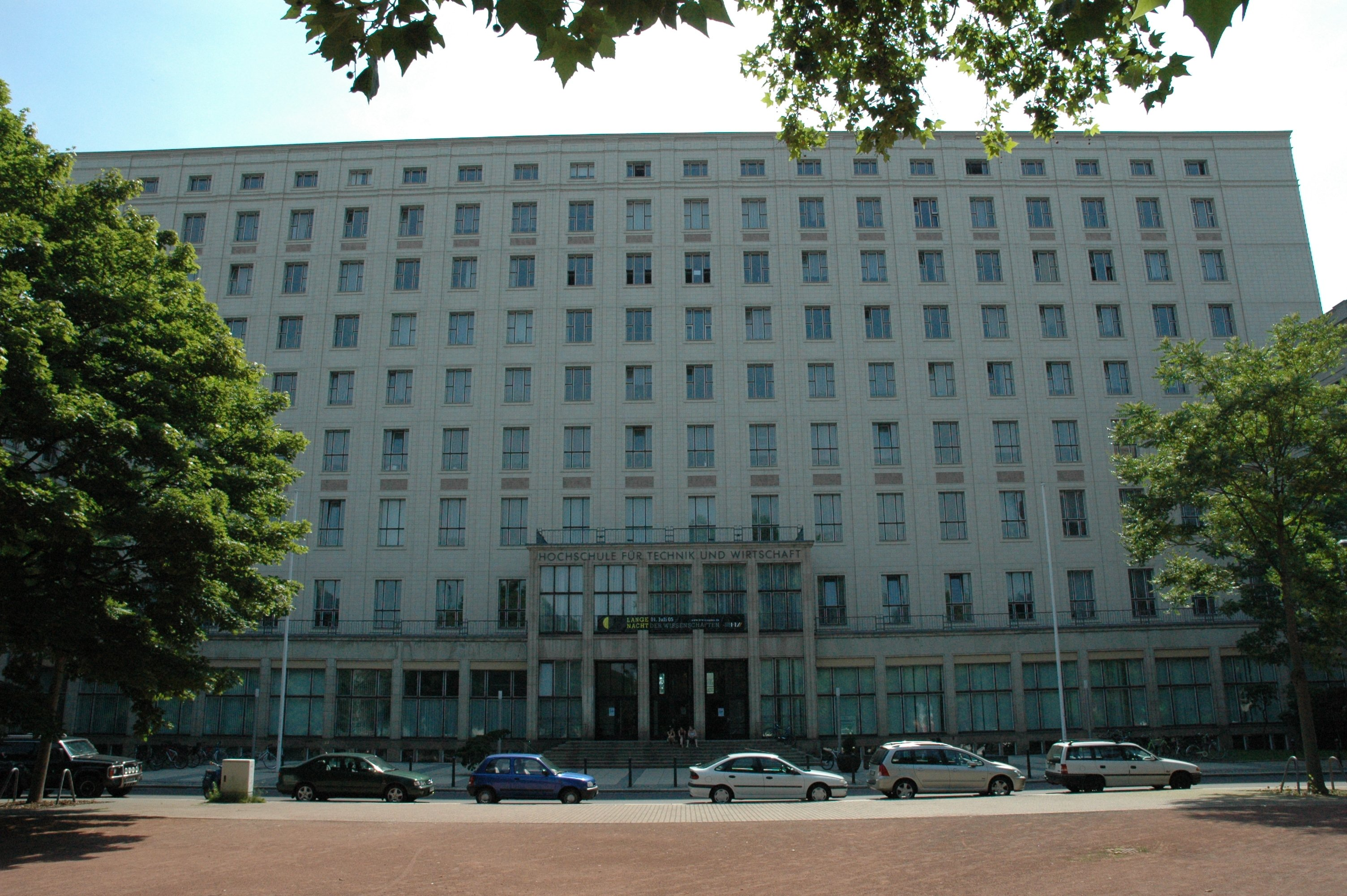 Hochschule für Technik und Wirtschaft Dresden (HTW-Dresden (FH)) Author: Stephan Herz (User:Stephan_Herz) with NIKON D70 Date: 2005-06-25 Notes:The main building of the HTW Dresden